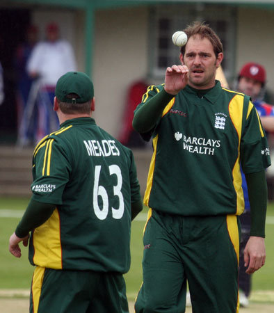 Lee Savident prepares to bowl